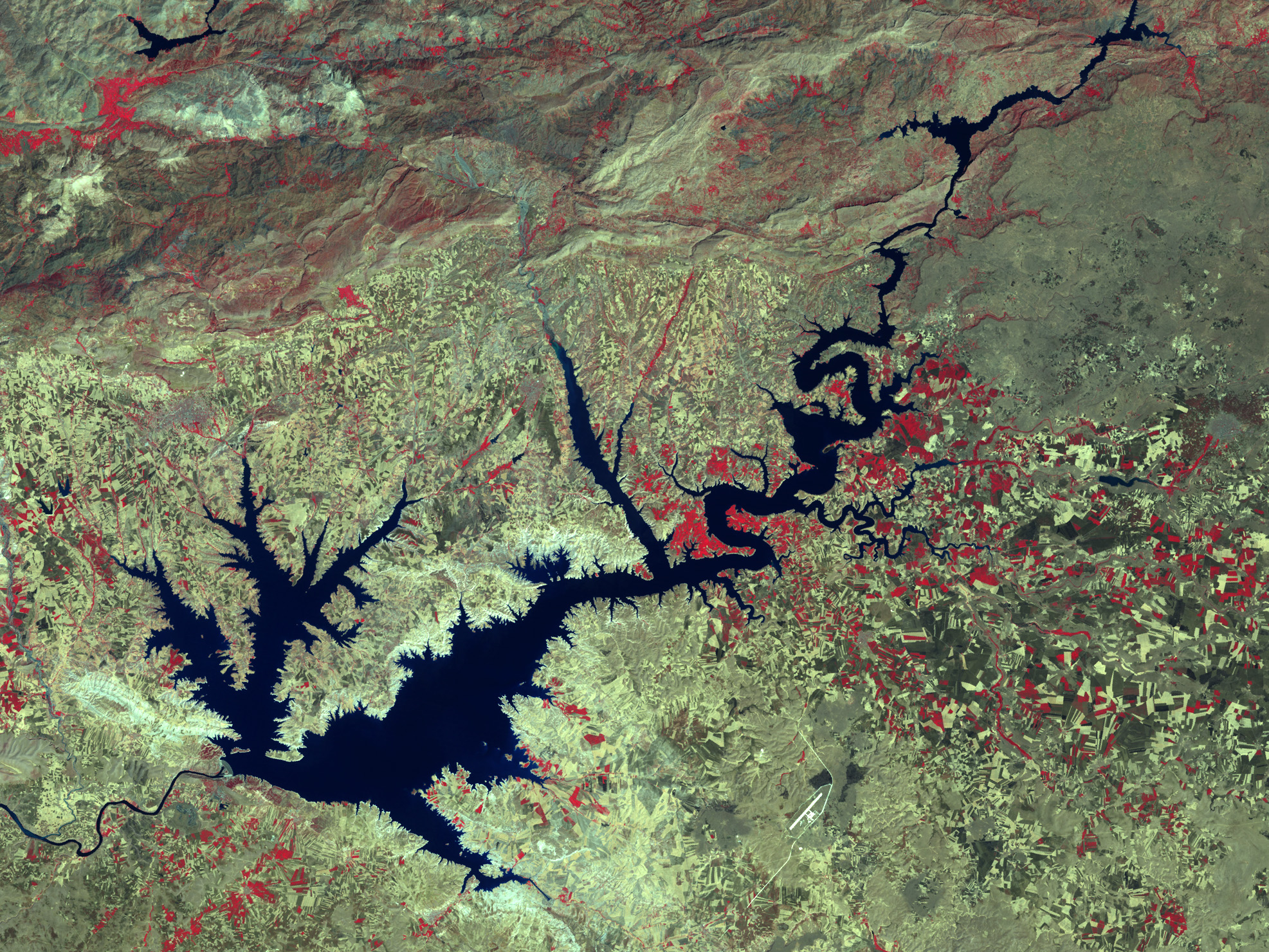 Ataturk Dam Lake after the construction of the dam. Image aquired by Landsat 7 Enhanced Thematic Mapper Plus (ETM+) instruments (ETM+ bands 4, 3, and 2).